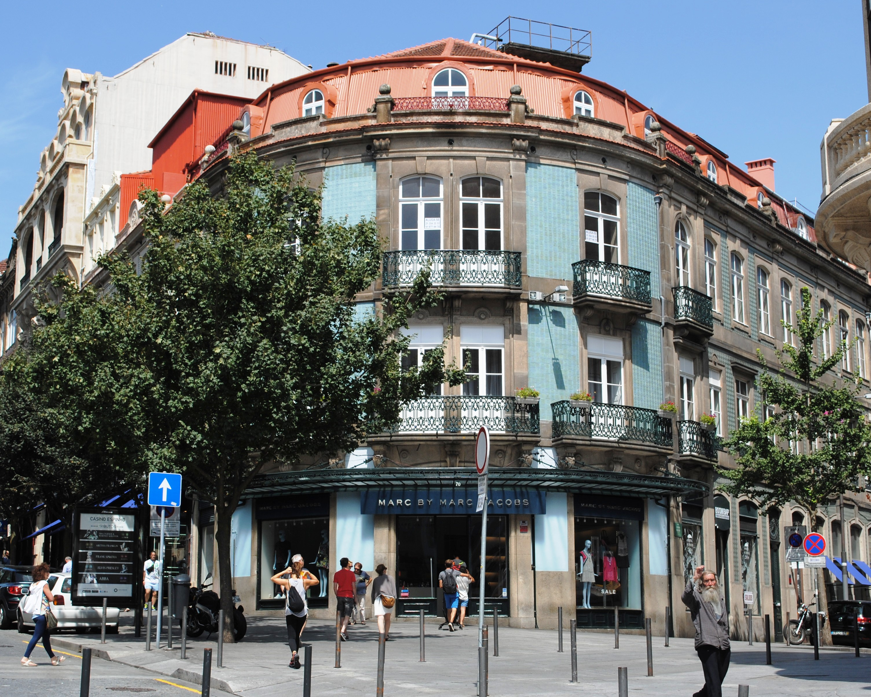 See title and categories.